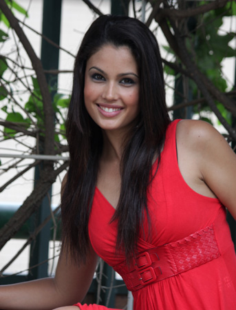 Miss Spain Patricia Rodriguez during Miss World 08